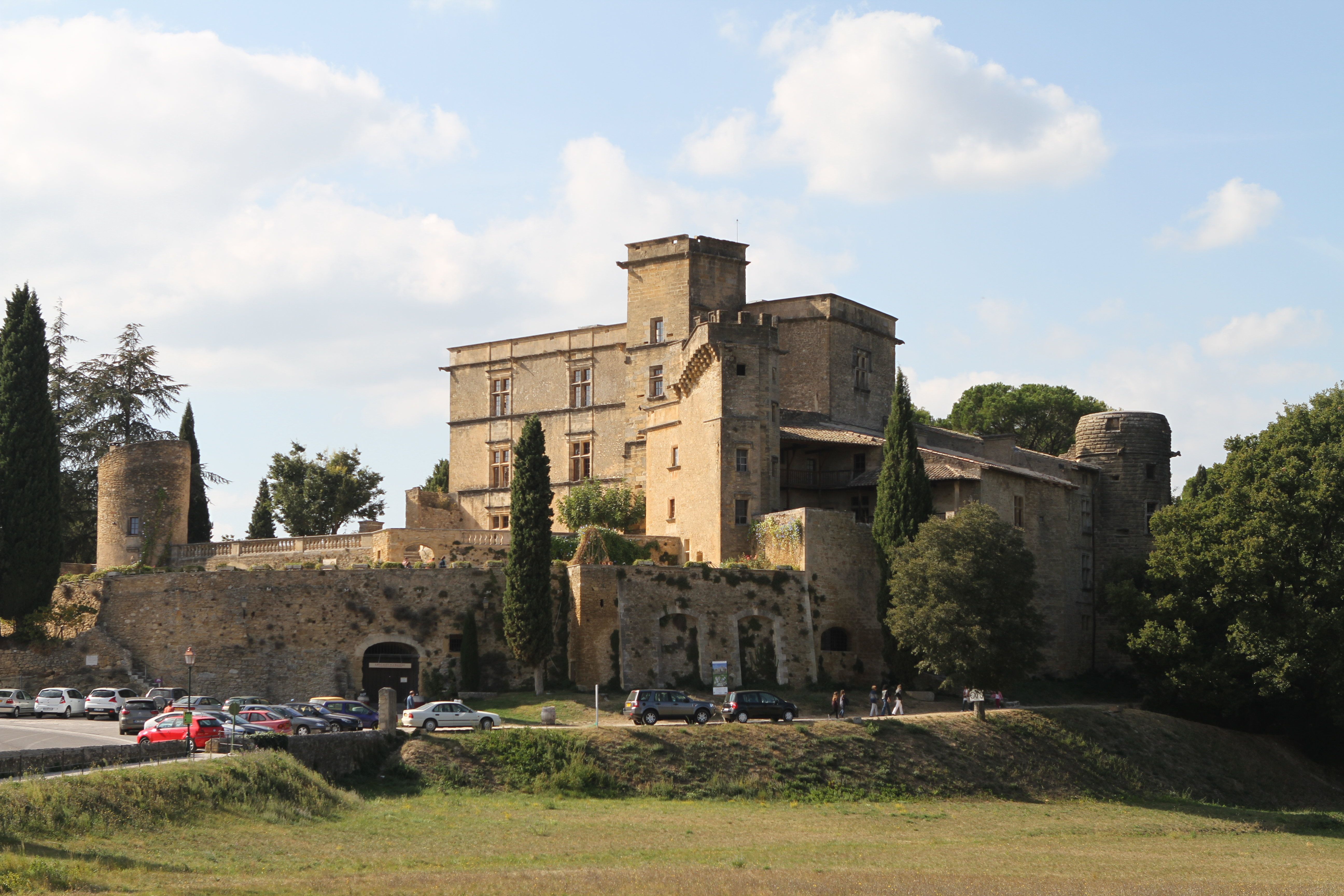 The Lourmarin Castle (Vaucluse, France)